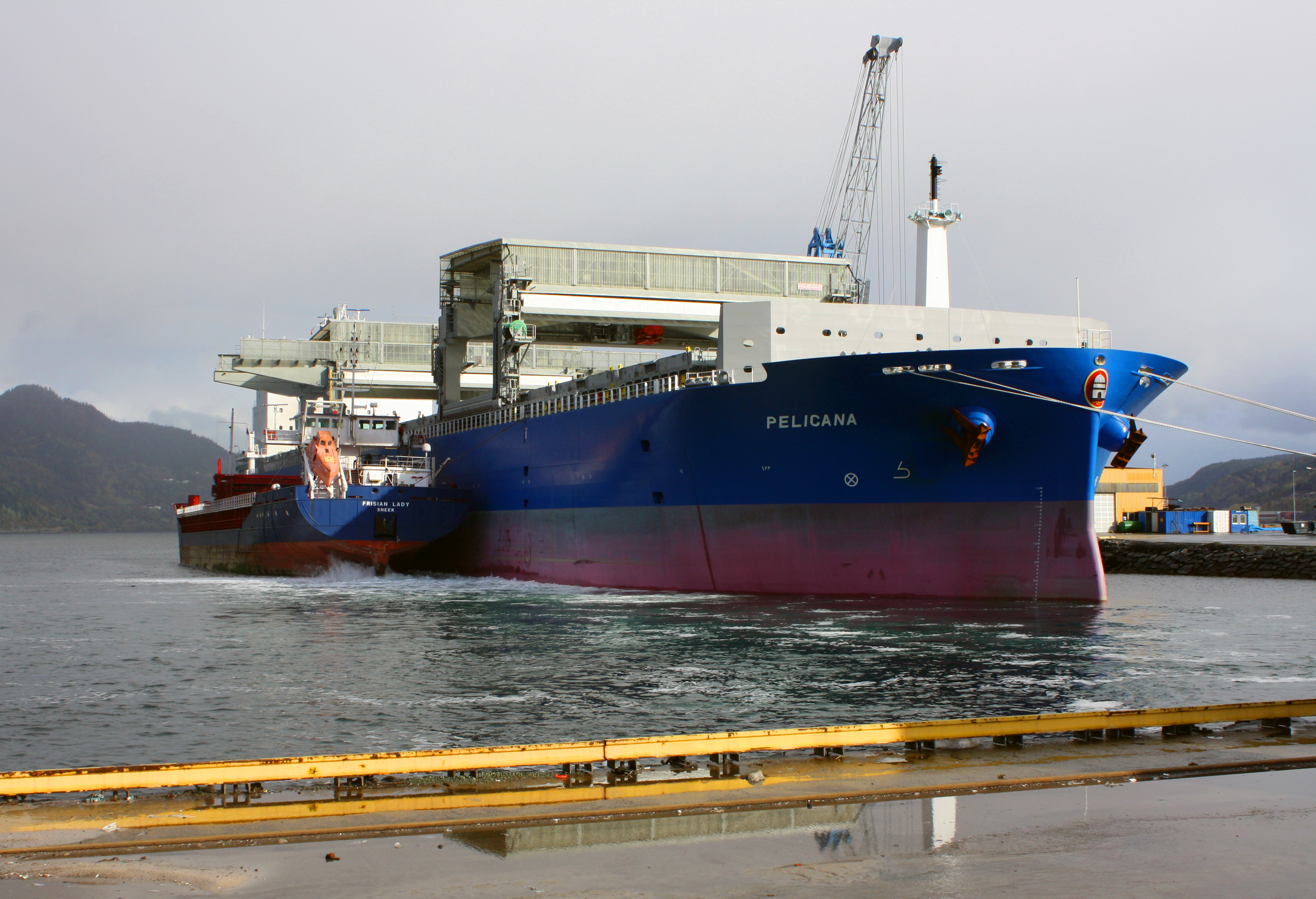 Frisian Lady og Pelicana